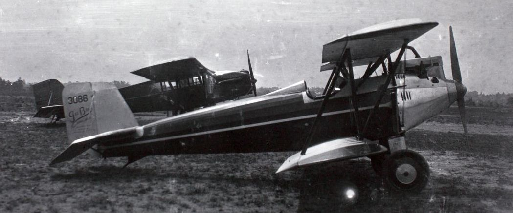 Repository: San Diego Air and Space Museum ArchiveWilliam Munger worked for the Granville Brothers on several projects, including the Gee Bees. This collection documents his life in aviation.